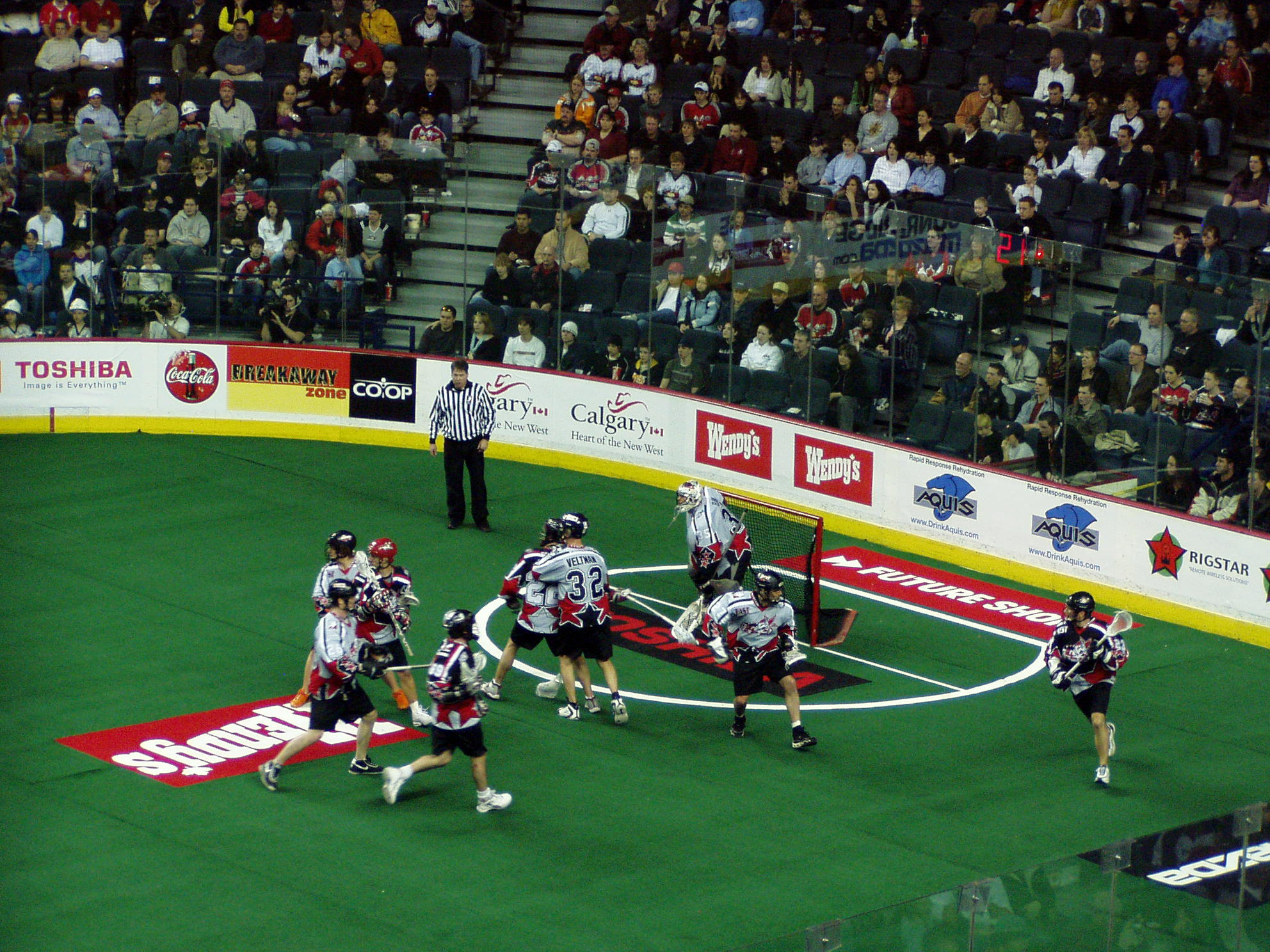 Action at the 2005 National Lacrosse League All-Star Game, February 26, 2005, Calgary, Alberta.